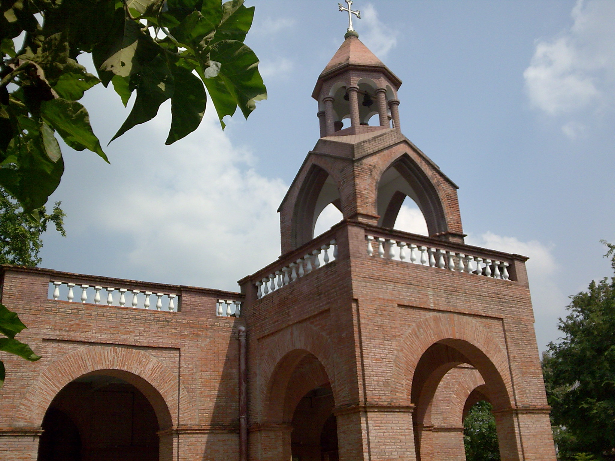 oldest Armenian Church of Eastern India.It was established in the city of Berhampore at Saidabad,West Bengal in 1757AD.